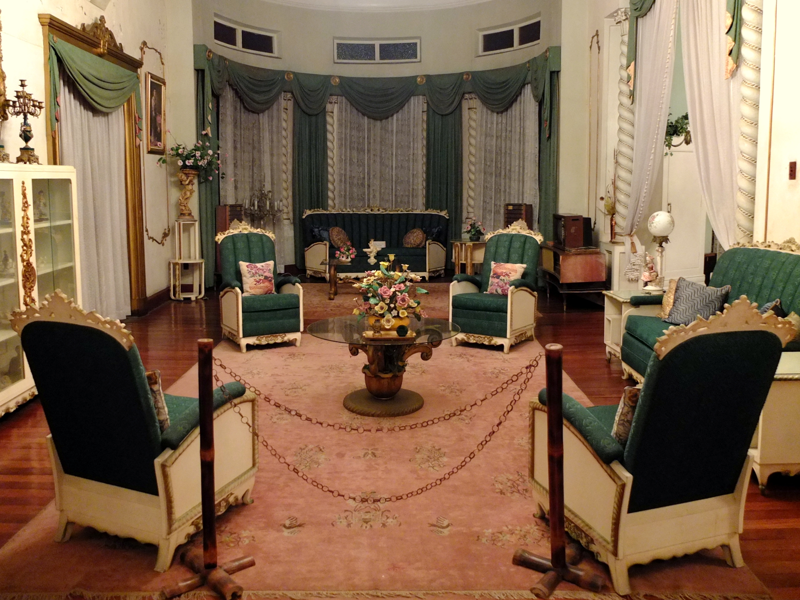 Second floor reception area of Gala-Rodriguez house